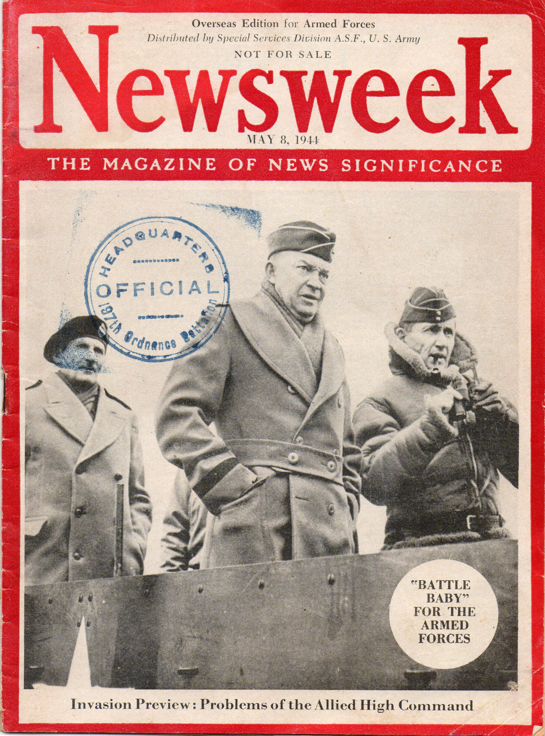 Cover of the May 8, 1944 issue of the US Armed Forces Overseas Edition issue of Newsweek magazine. This issue, published one month before the Allied D-Day invasion at Normandy, features a cover story entitled "Invasion Preview: Problems of the Allied High Command". Size: 6.25" x 8.5". Circular rubber stamp on cover reading: "OFFICIAL Headquarters 197th Ordnance Battalion" which was then engaged in the Battle of Anzio, Italy.